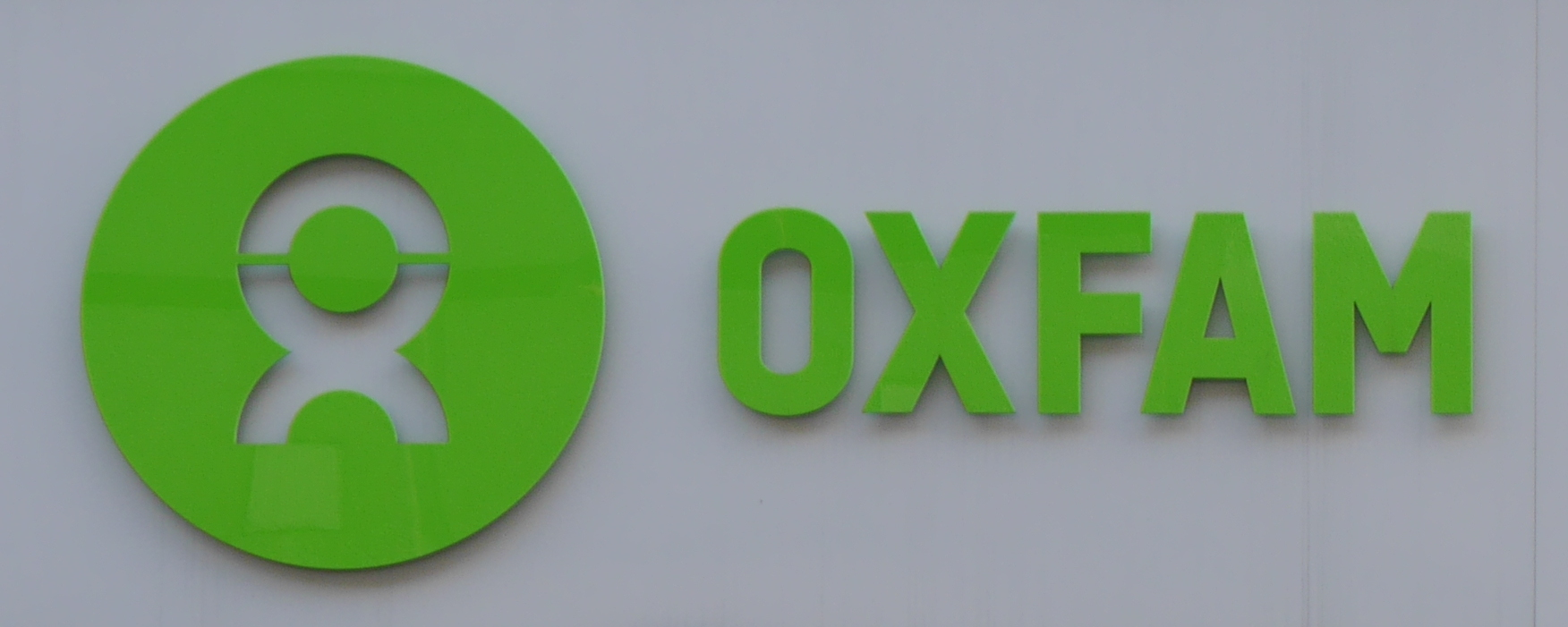 Oxfam logo, cropped on a 2016 photograph (see below).